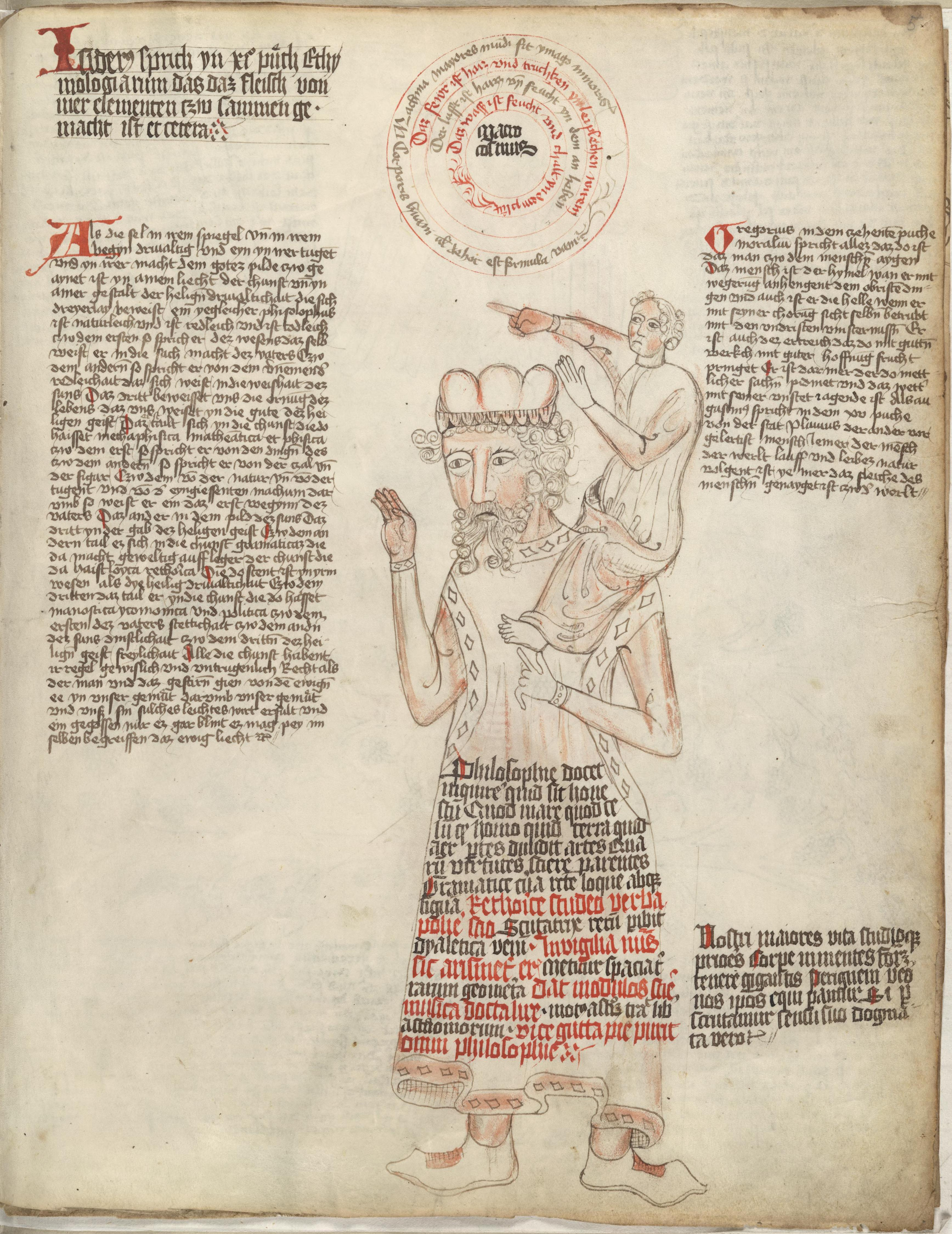 [Encyclopedic manuscript containing allegorical and medical drawings], Library of Congress, Rosenwald 4, Bl. 5r